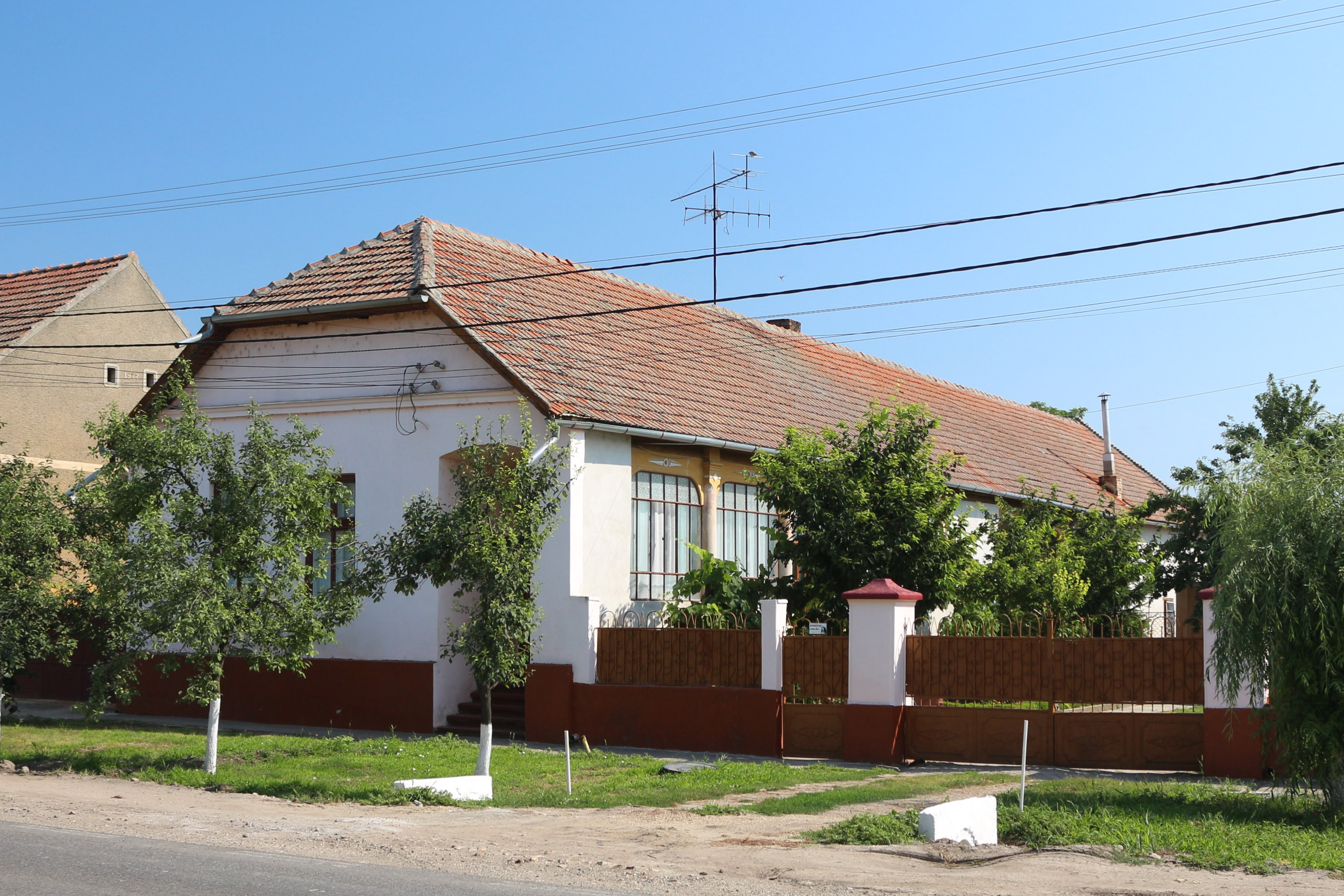 Swabian house in Biled 377, Timiș, Romania, built 1909